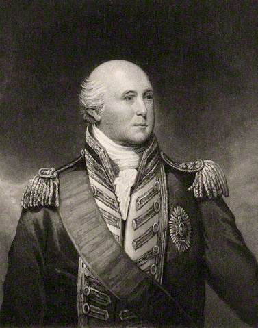 Sir Charles Pole, 1st Baronet (1757-1830)